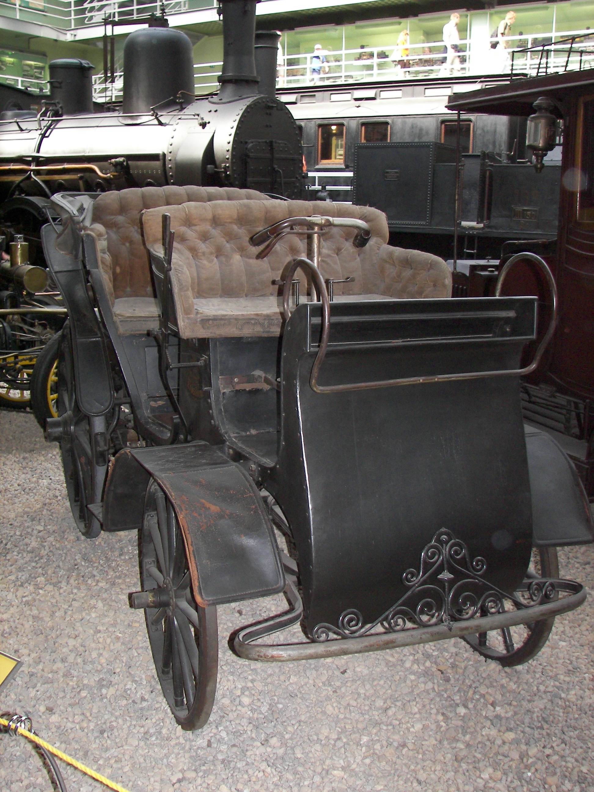 NW Präsident, first automobile produced in Czech (1897), from company later known as Tatra, exposition of Národní tecnické muzeum v Praze